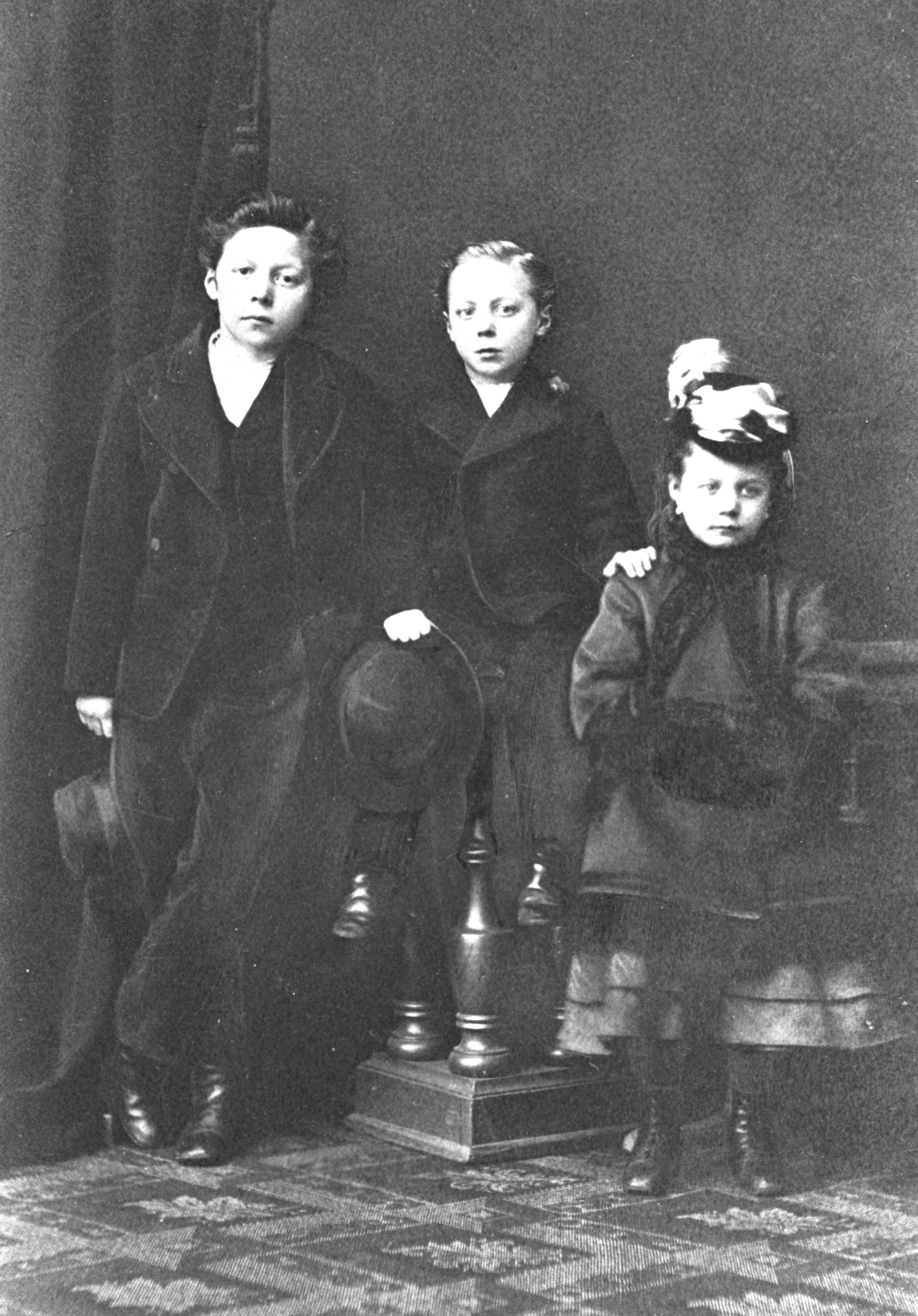 Professional photograph of a group from around the turn of the 19th/20th century: siblings